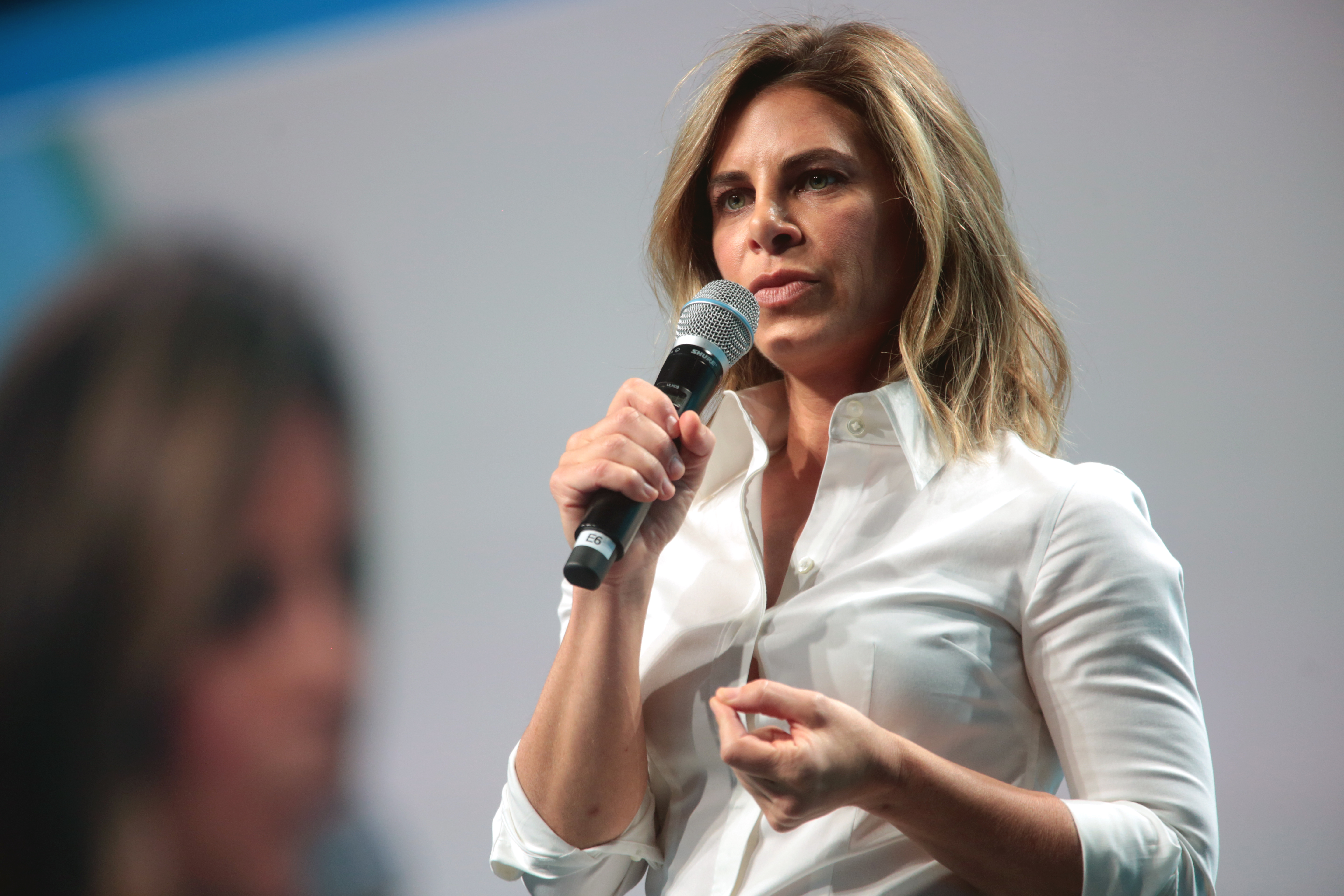 Jillian Michaels speaking with attendees at the 2017 ICON hosted by Infusionsoft at the Phoenix Convention Center in Phoenix, Arizona.